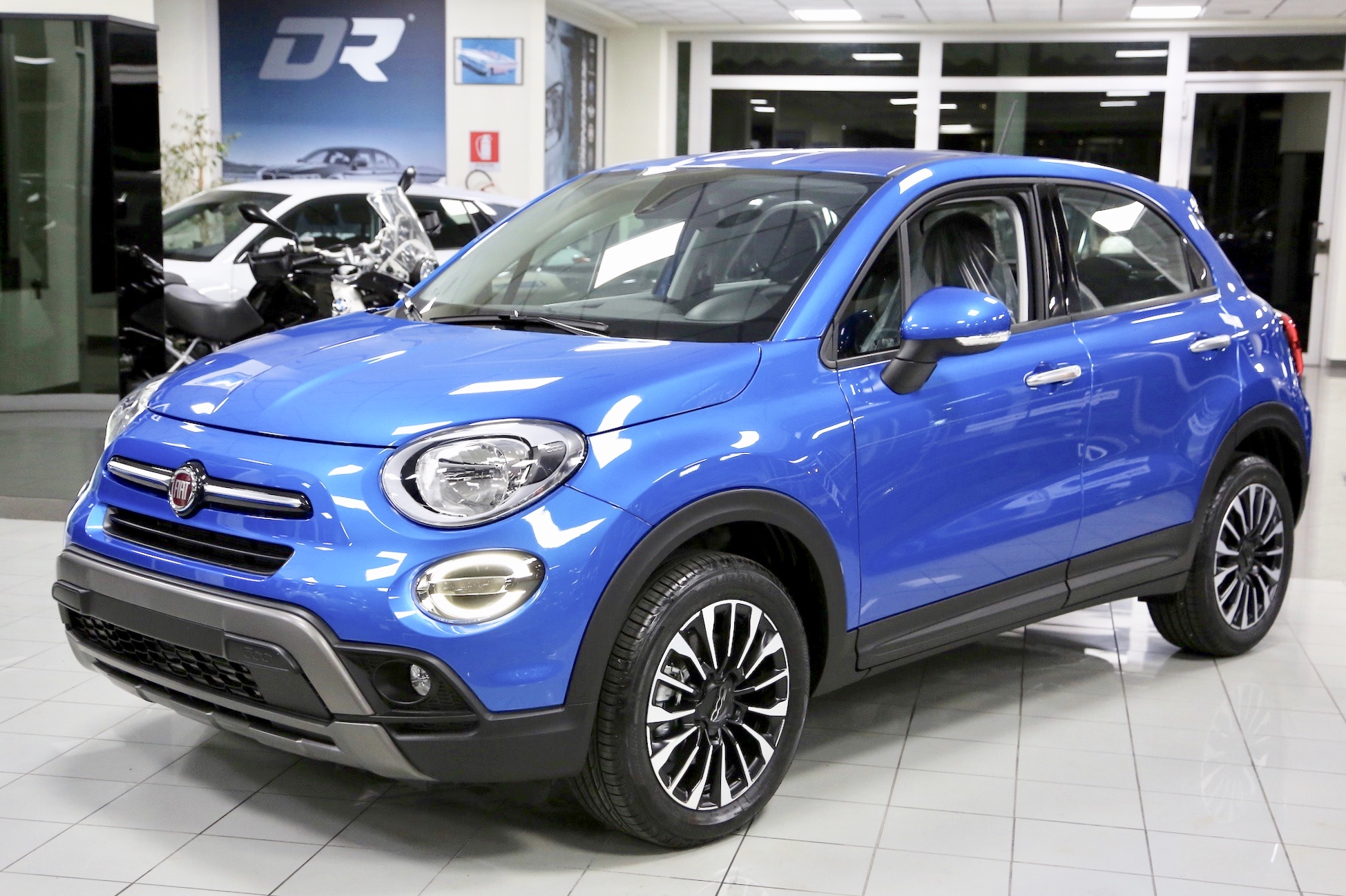 2018 Fiat 500X Cross 1.6 Multijet II